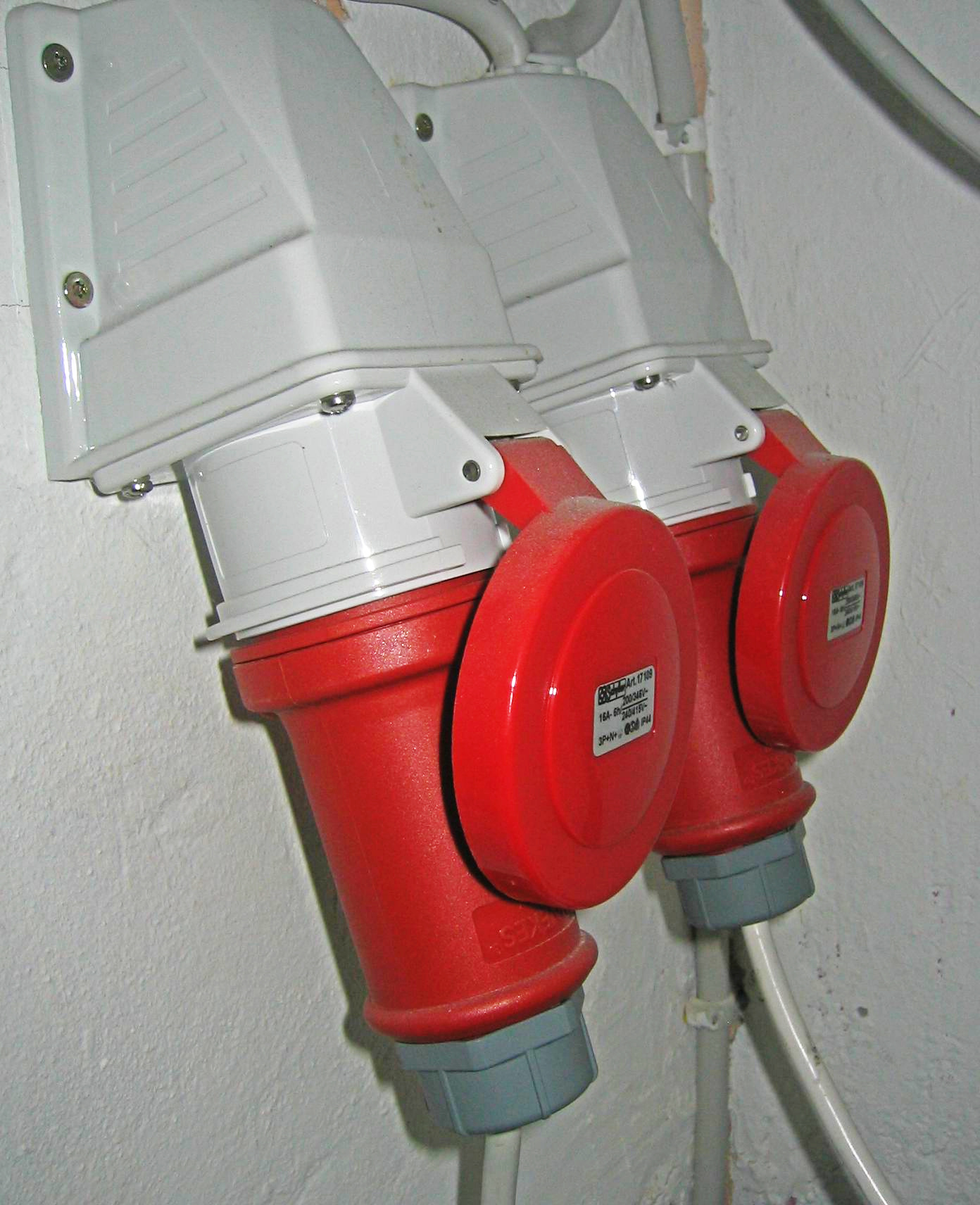 2 mated 3P+N+PE plugs and wall-mounted sockets